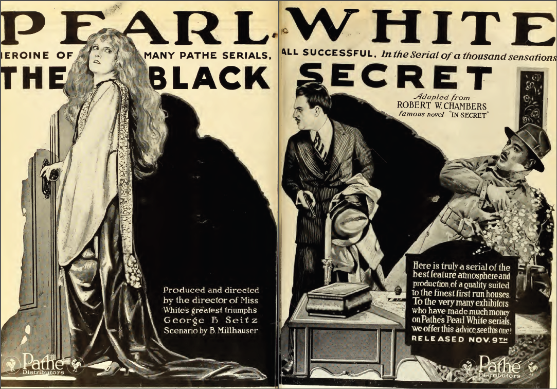 Advertisement with Pearl White in the American film serial The Black Secret (1919).